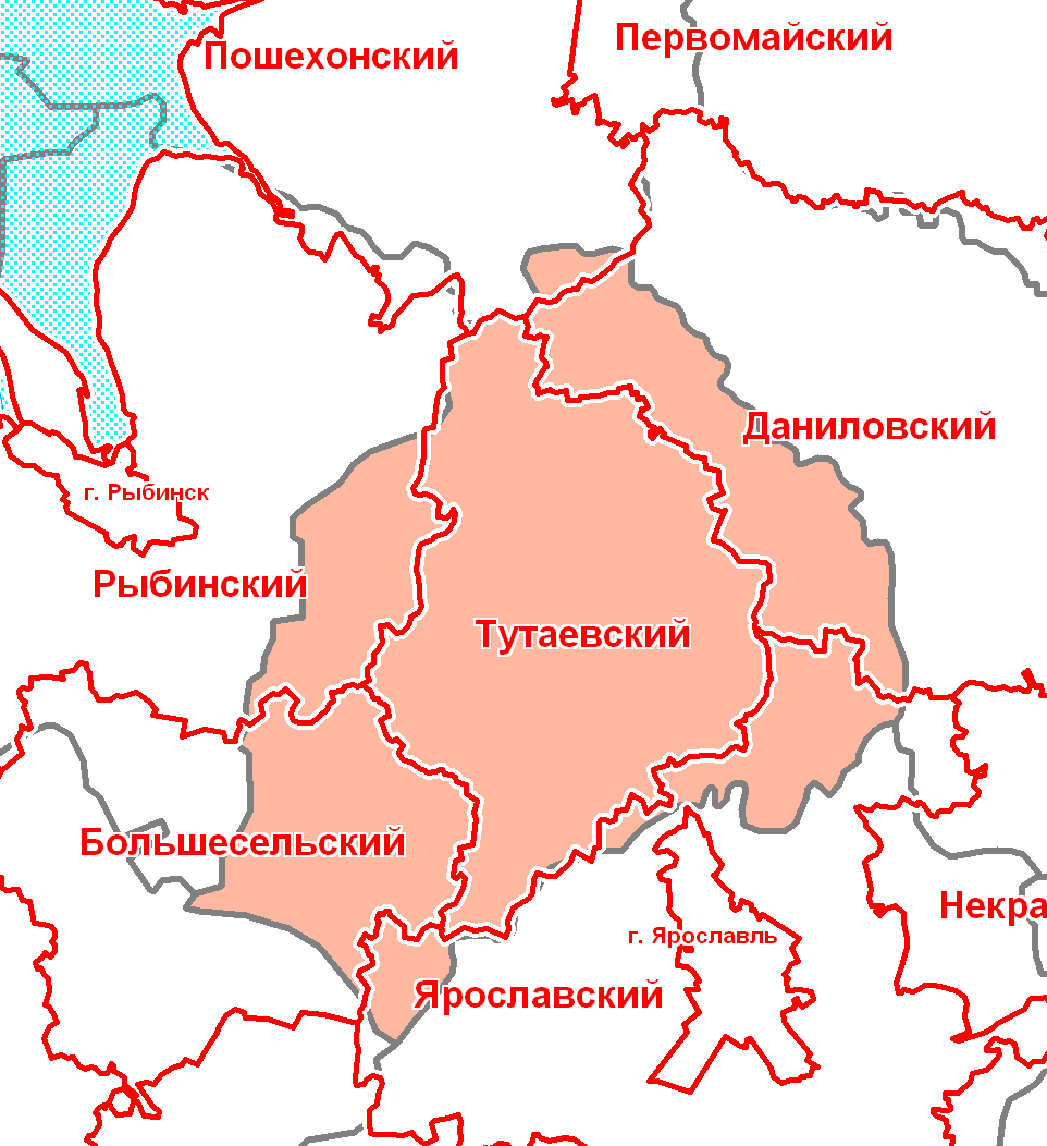 Maps of Yaroslavl Governorate